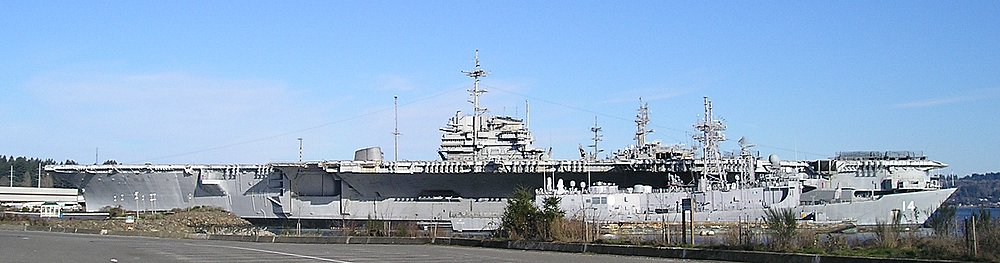 The USS Independence (CV-62) in mothballs in Puget Sound Naval Shipyard, Bremerton, Washington, in 2006. From en-wikipedia [1] Original image uploaded by Mlouns; 08:02, 20 February 2006 Original text